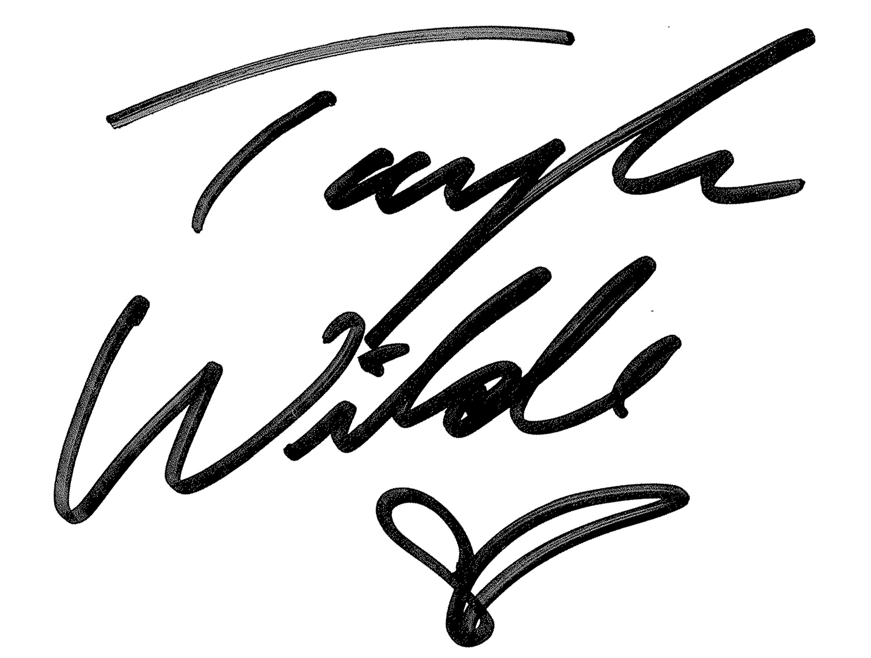 Autograph of professional wrestler Taylor Wilde, obtained at a BSE show